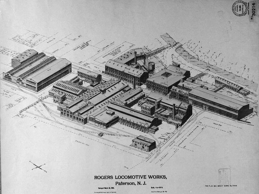 Drawing of the Rogers Locomotive Works plant in Paterson, New Jersey. Photocopy of Associated Mutual Fire Insurance Map. Original Survey, Serial No. 7485. Index No. NJ30214.